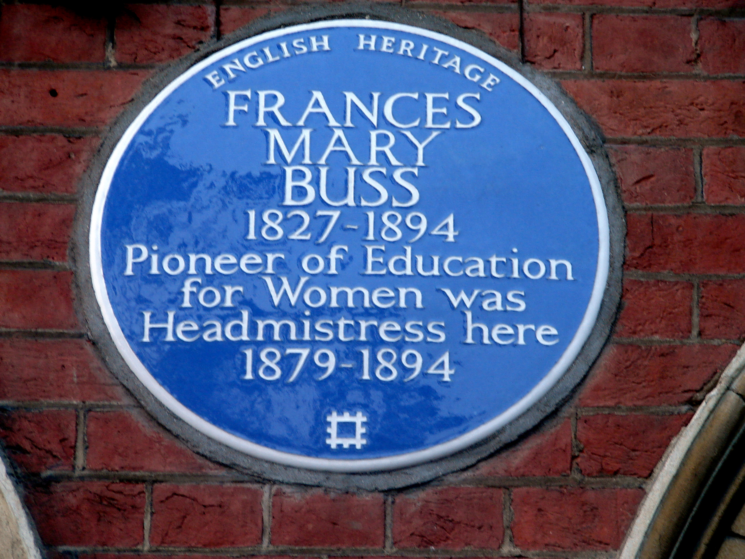 Frances Mary Buss